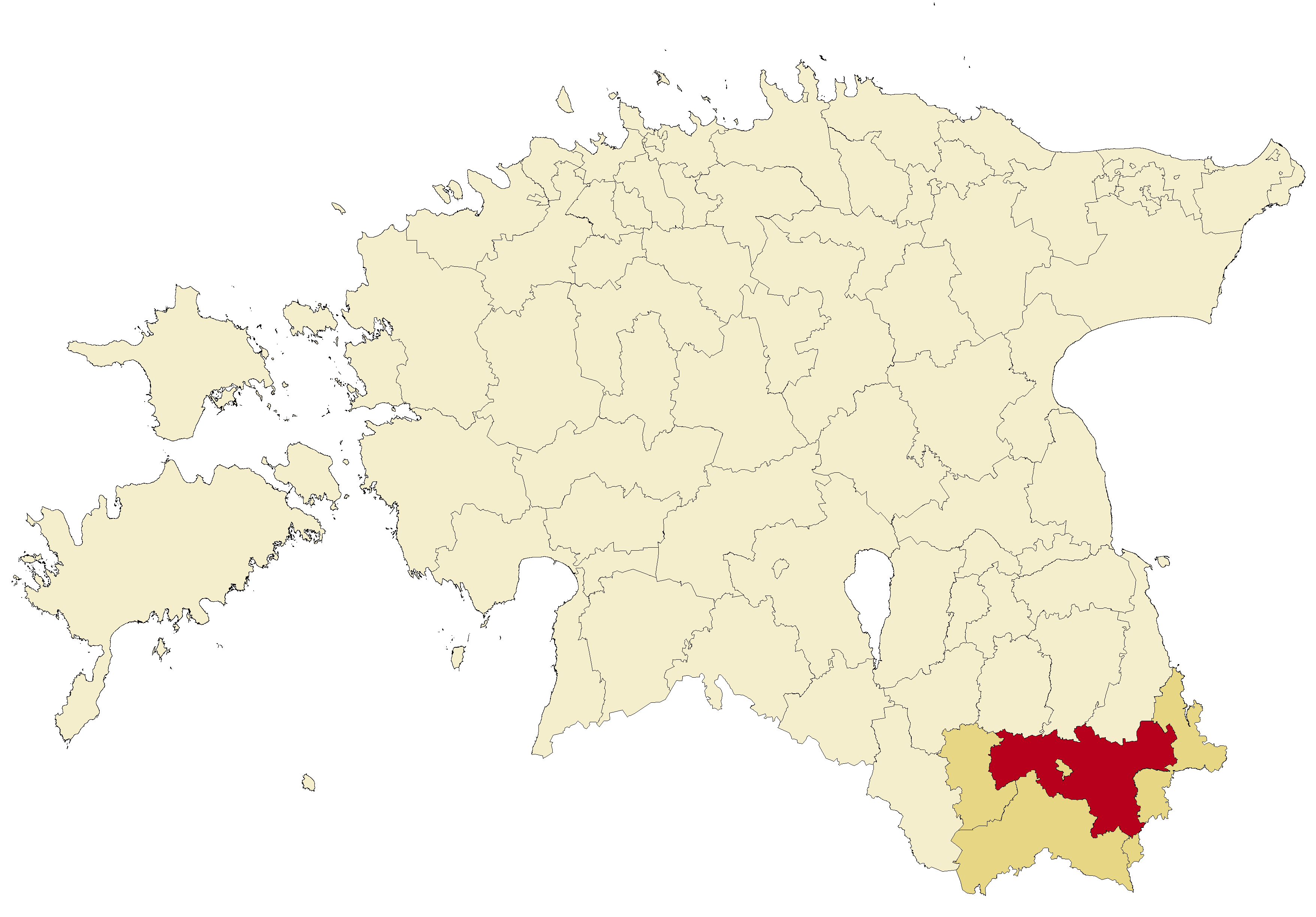 Location of Võru Parish (red) within Võru County (dark yellow) after the Administrative Reform of Estonia in 2017.